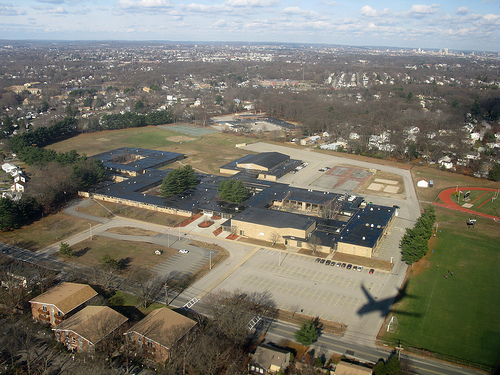 An aerial photograph of my house in Warwick, Rhode Island.